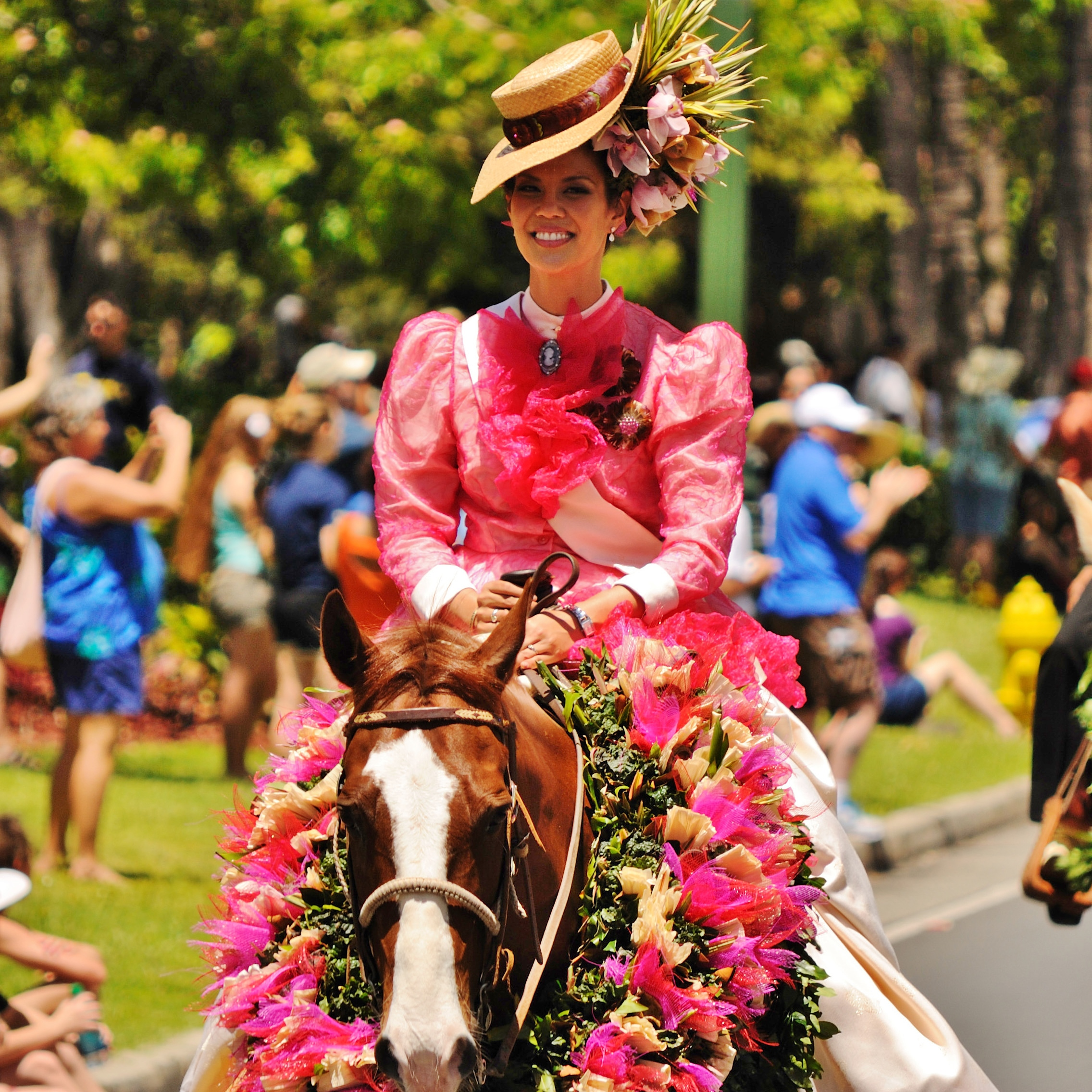 A Pa'u Attendant riding in Queen's Unit